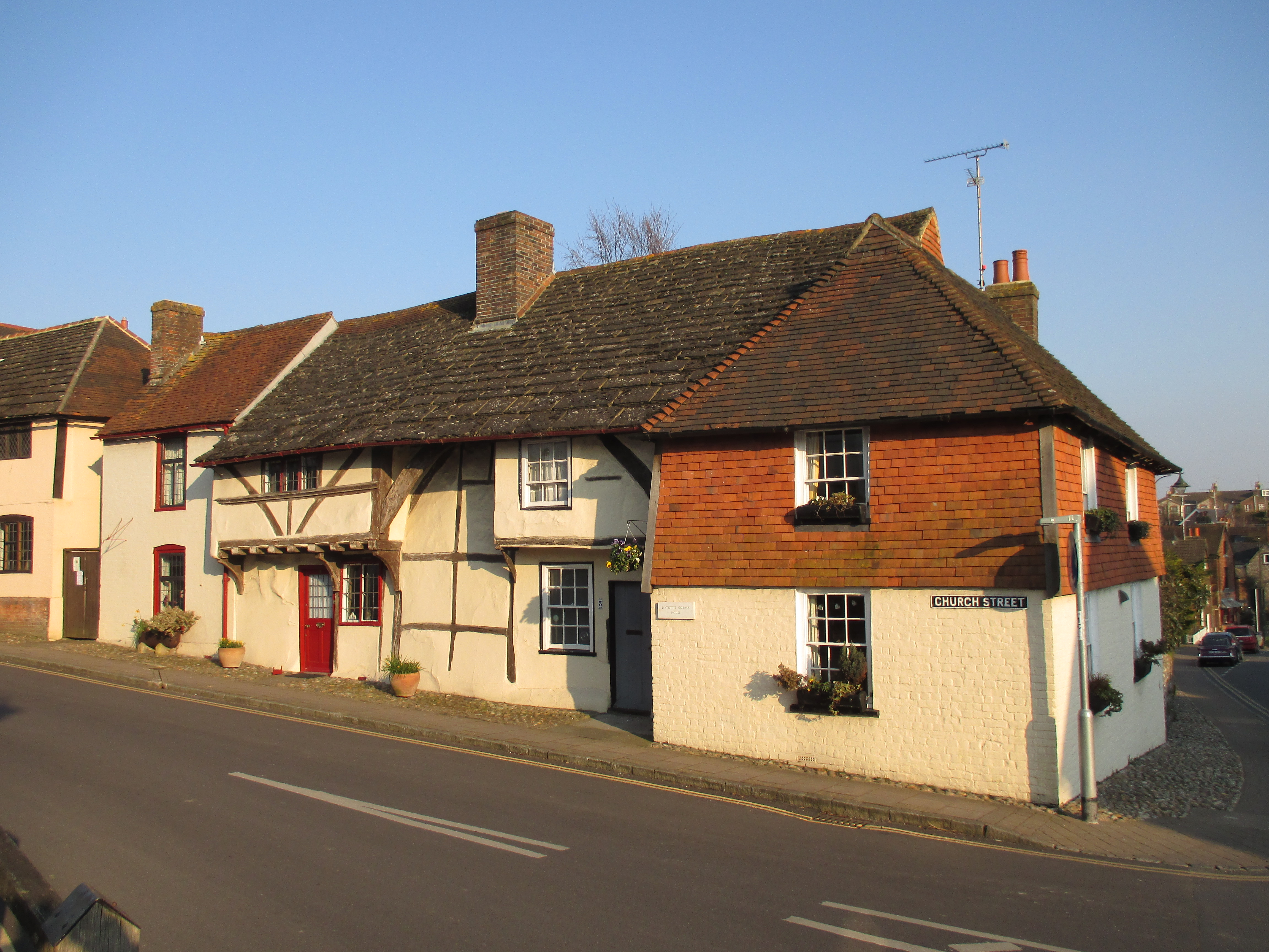 1, 3, and 5 Church Street, Steyning, West Sussex, seen from the west.